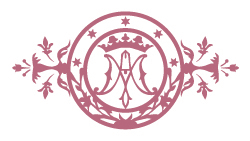 First emblem of congregations of Religiosas de la Pureza de María, ca. 1874, present in several publications until 20th cent.